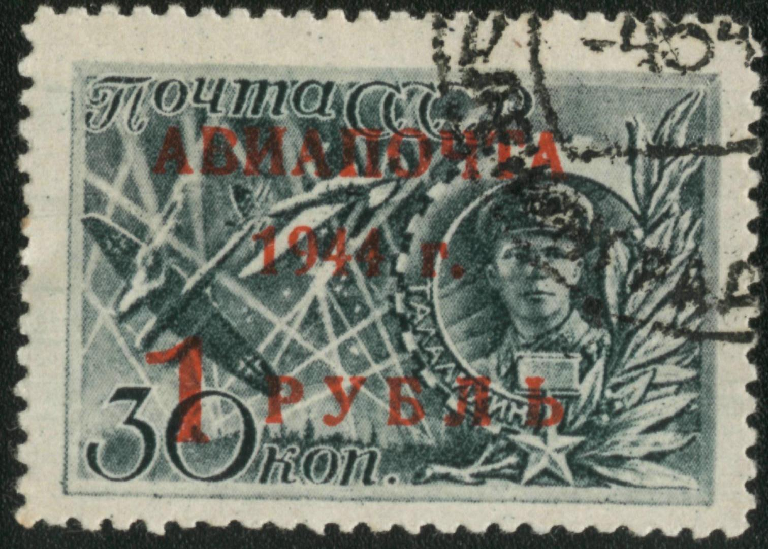 USSR stamp of 1942-1944: Victor Talalikhin. Grey, 30 kop., cancelled in April of 1944. Shows v. Talalikhin and his first ever night ram attack of Heinkel He 111 in Moscow sky. Airmail overprint of 1944, 1 rouble. CPA No. 892 (stamp without overprint - CPA 888).